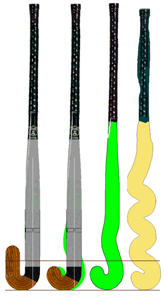 Various configurations of hockey stick head and handle which resulted in rule change.